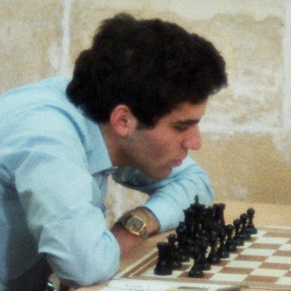 Garry Kasparov 1980, Chess Olympiad in Valetta on Malta, photographer Gerhard Hund.